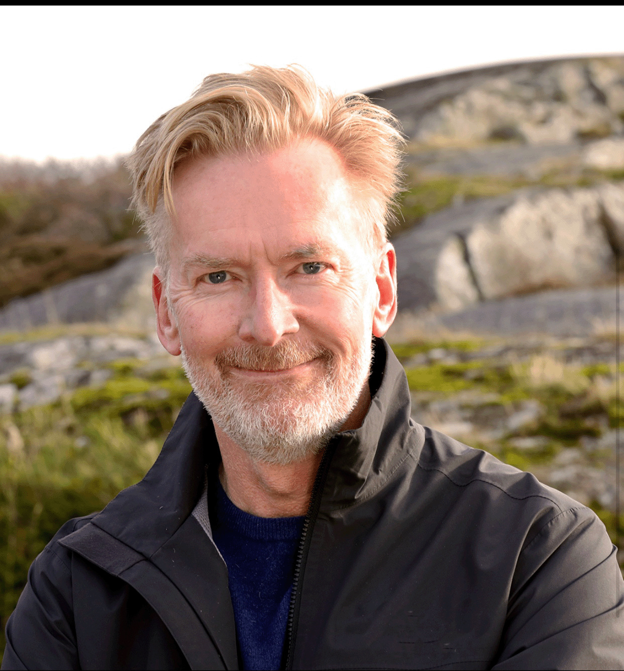 Actor Johan Paulsen